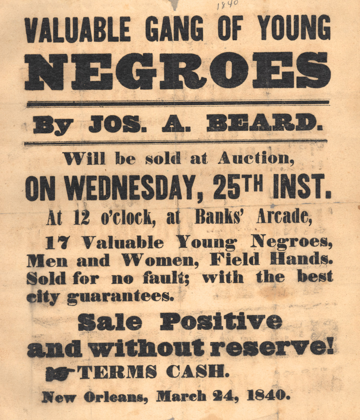 1840 poster advertising slaves for sale, New Orleans. "Valuable Gang of Young Negroes", 17 men and women, to be sold at auction 25 March 1840 at Banks' Arcade. Note: Banks Arcade now known as Picayune Place